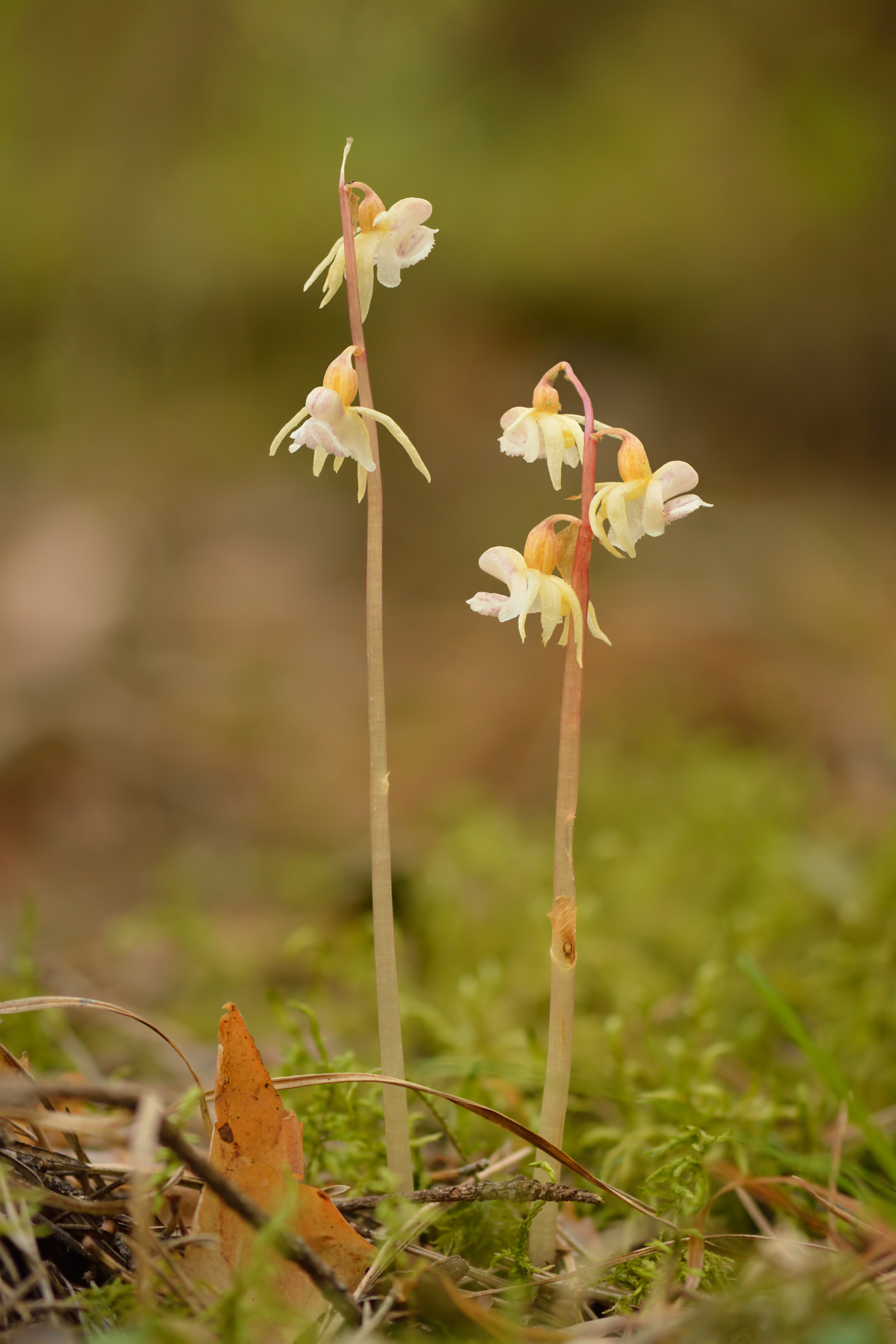 Ghost orchid. Flower size ca 20 mm